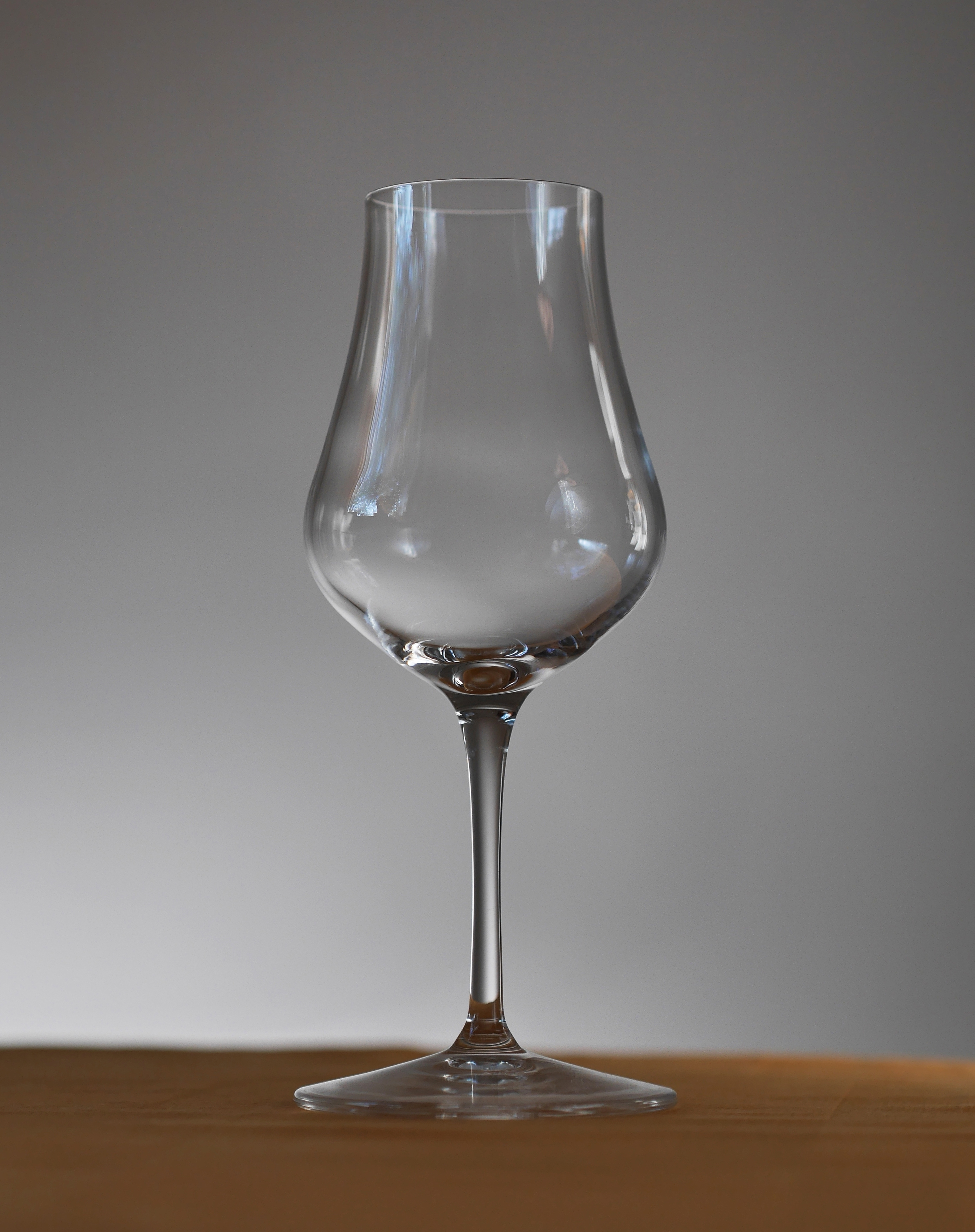 Whisky nosing glass